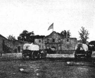 This photo depicts the Alamo Mission in San Antonio, TX, with Alamo plaza in front. It was taken during the 1860s.